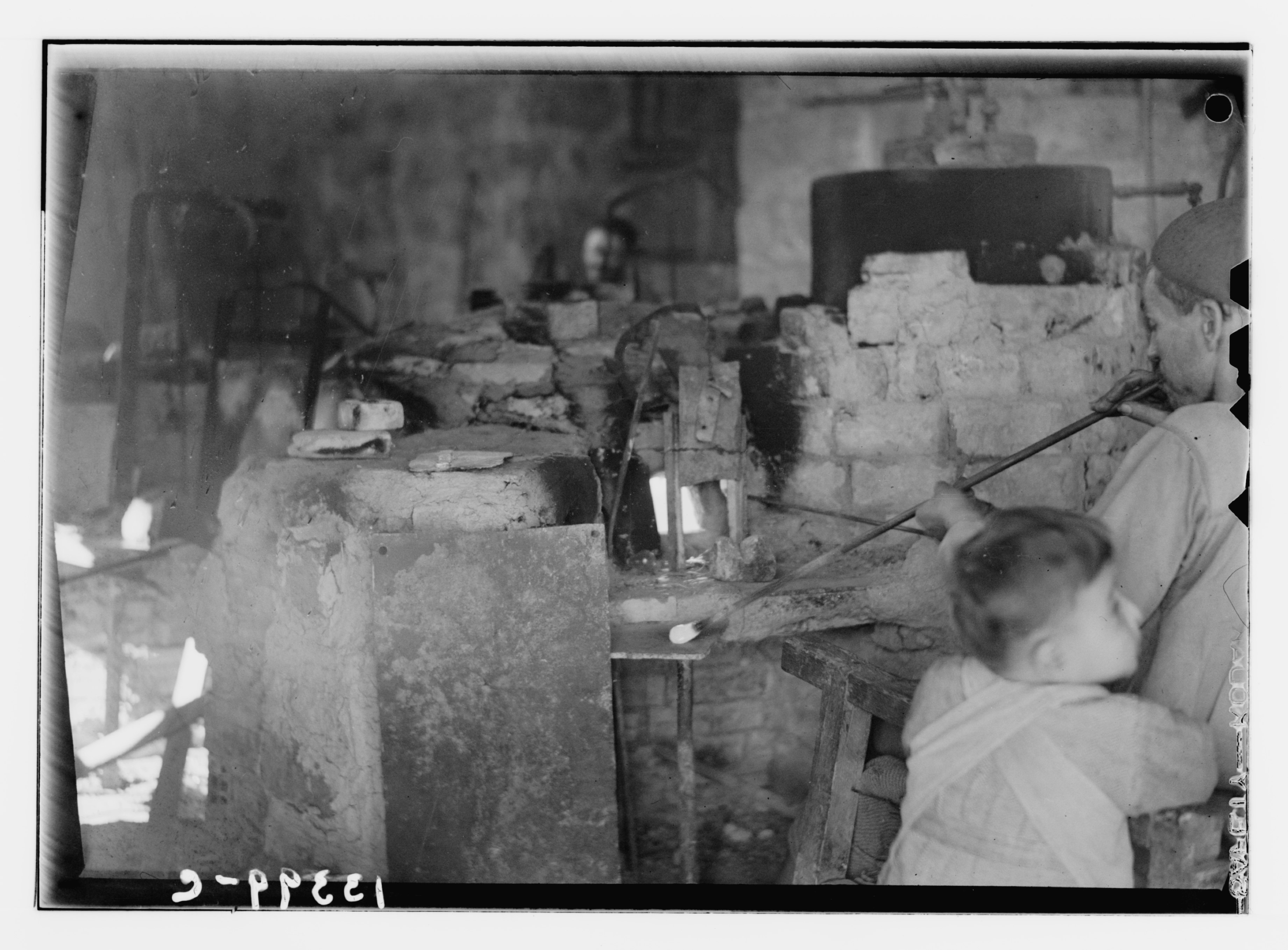 Title: Hebron. Glass blowing, Dec. 9, 1945 Abstract/medium: G. Eric and Edith Matson Photograph Collection Physical description: 1 negative